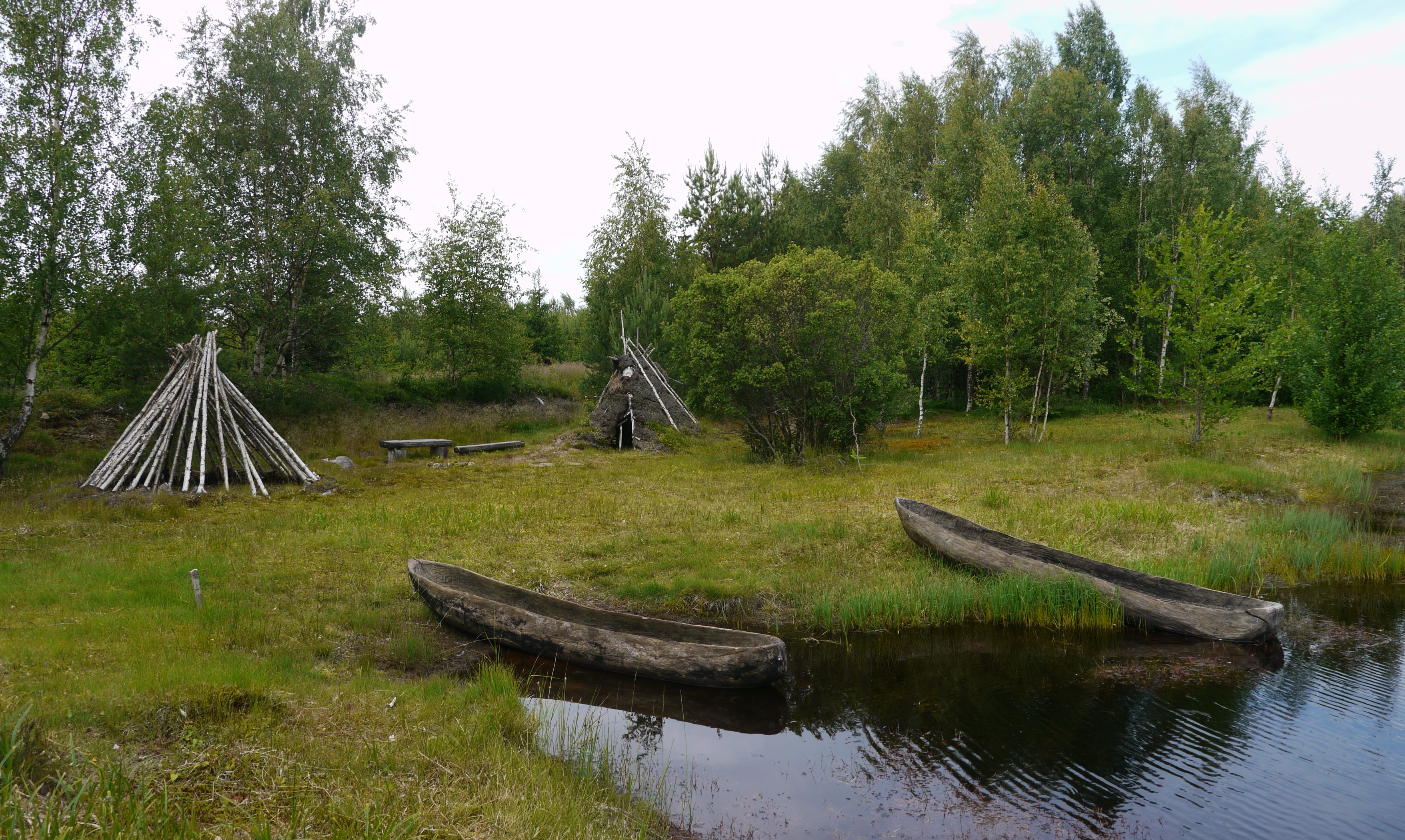 Reconstruction of shelters and tree canoes near Långbergen, Saltvik, Åland, as they may have been used there in the stone age, about 6000 years ago.